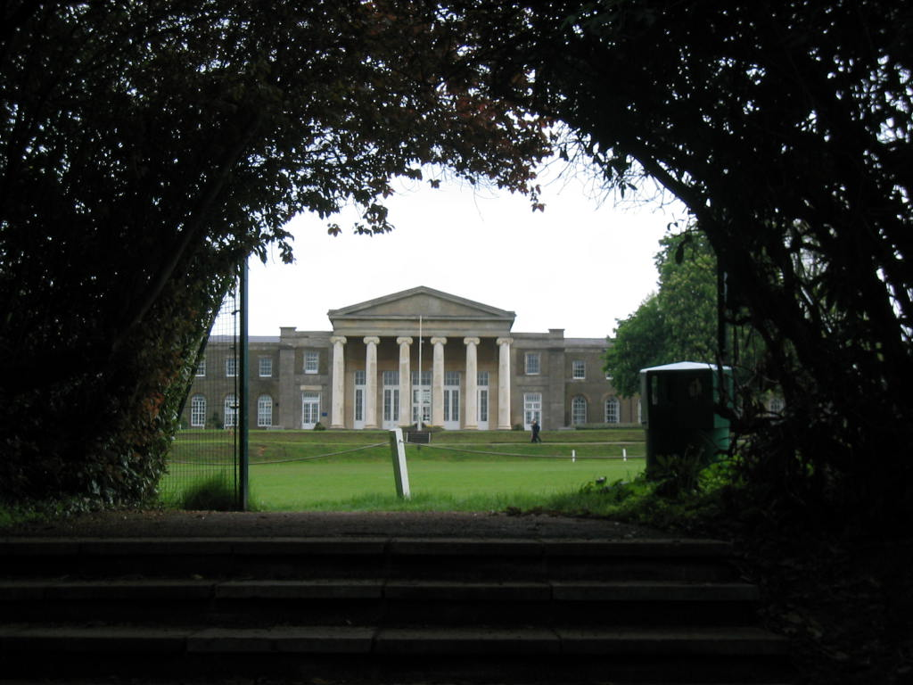 Mill Hill School from Top Terrace.